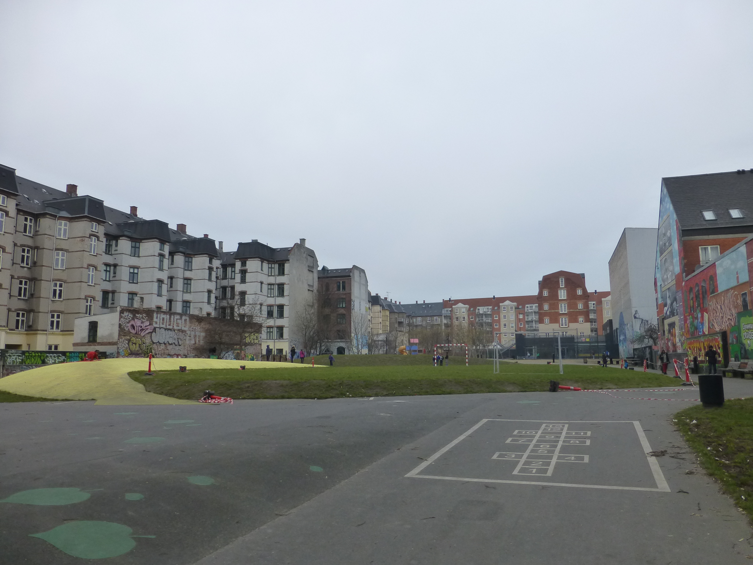 The park BaNanna Park at Nannasgade in Nørrebro in Copenhagen.